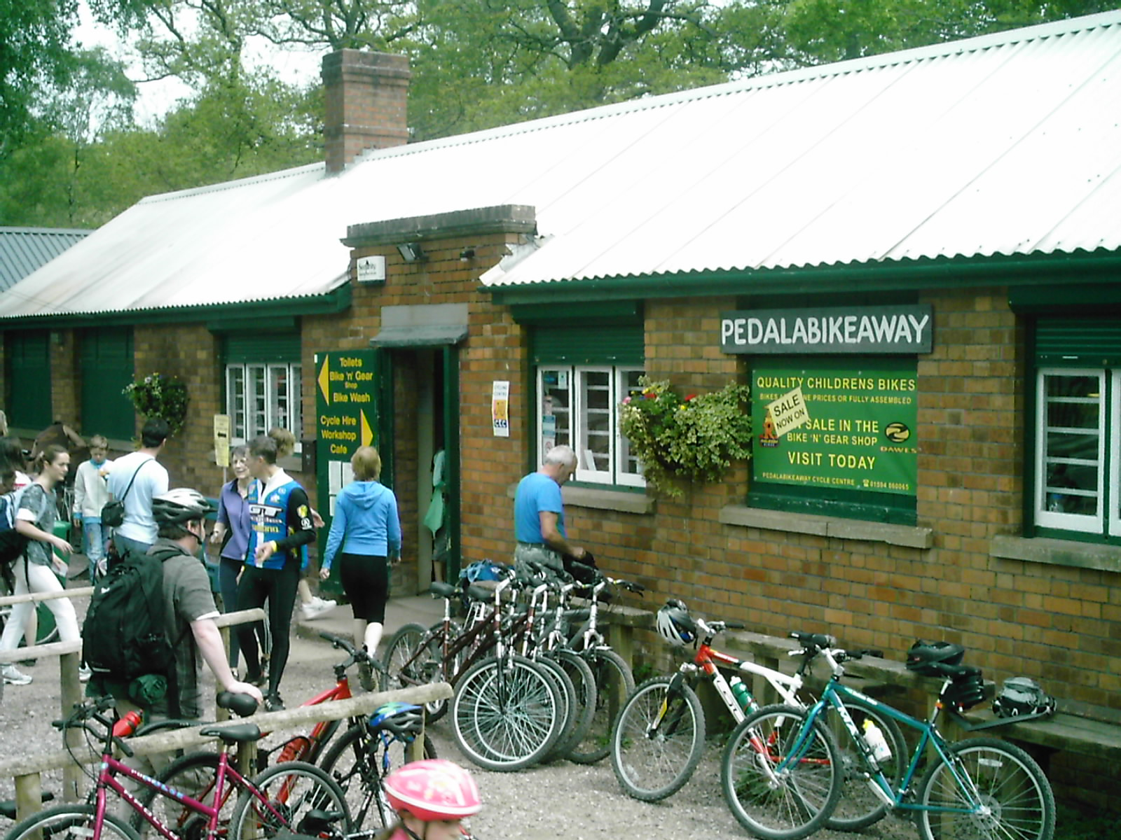 Pedalabikeaway at Canno Cycle Centre